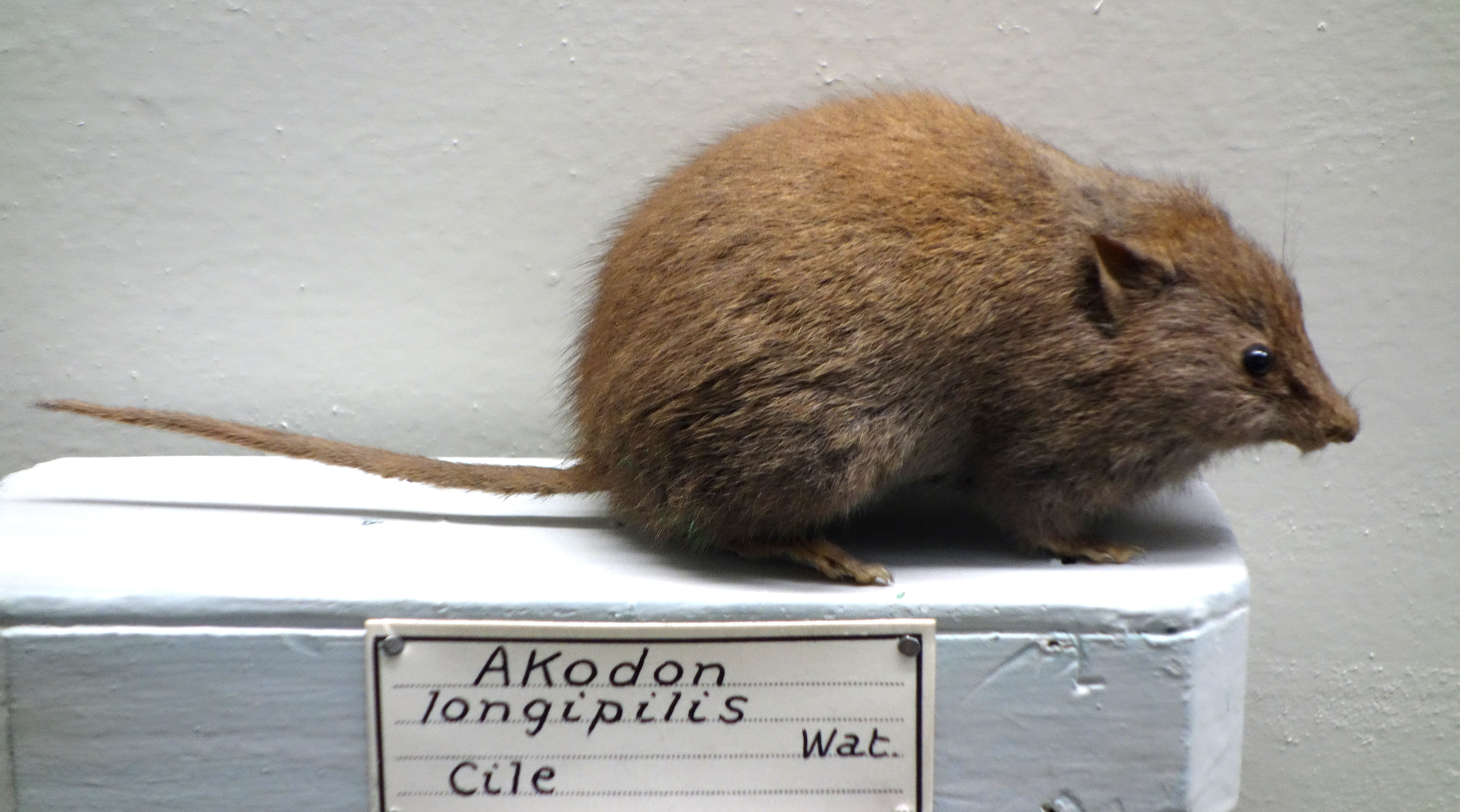 Exhibit in the Museo Civico di Storia Naturale di Genova, Via Brigata Liguria, 9, 16121, Genoa, Italy.